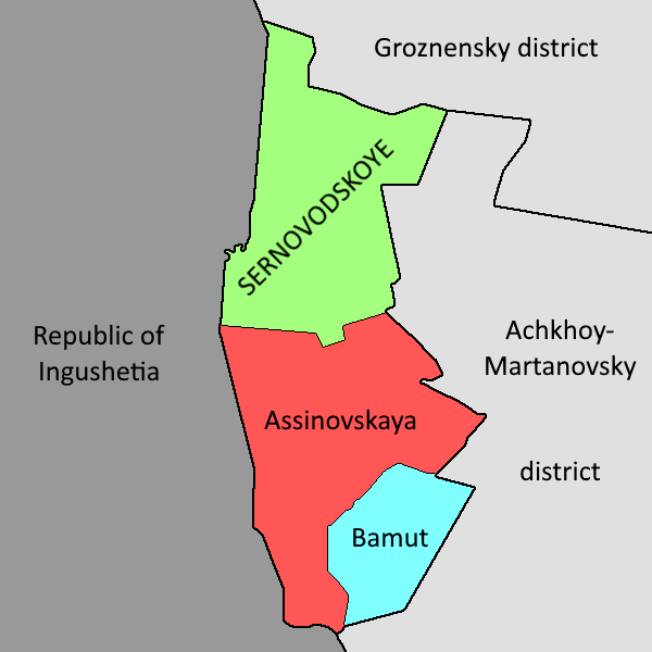 Map of Sunzhensky District, Chechnya with rural settlements after 2019 September 8